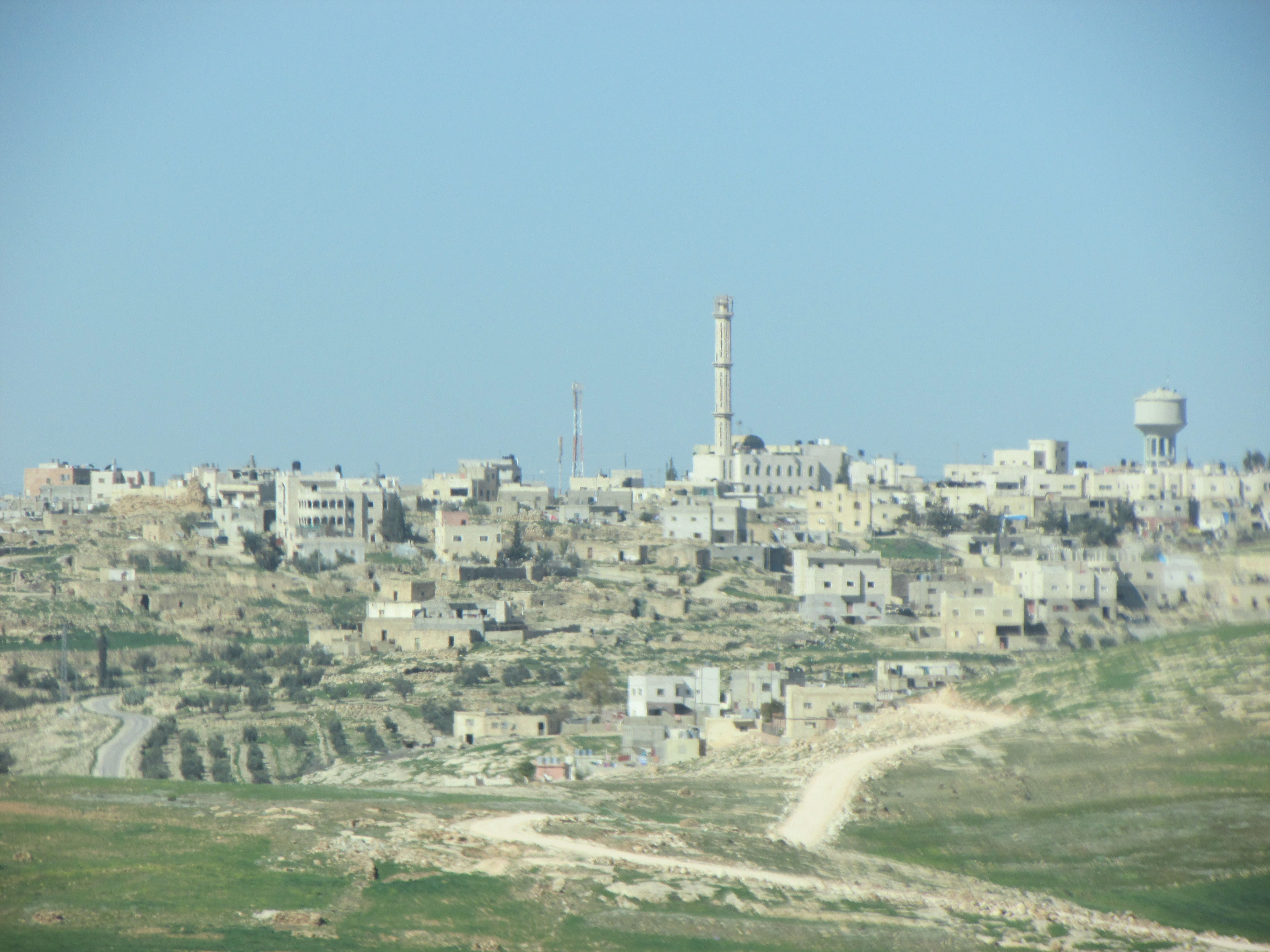 Al-Karmil from the east